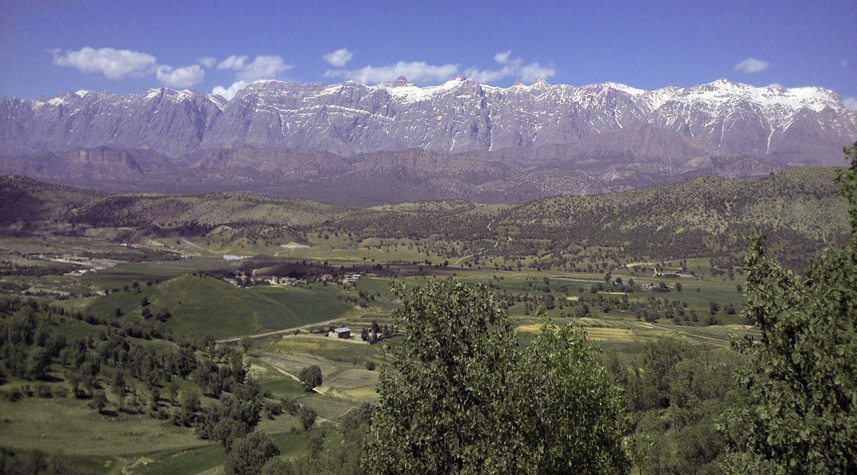 Dena mountain